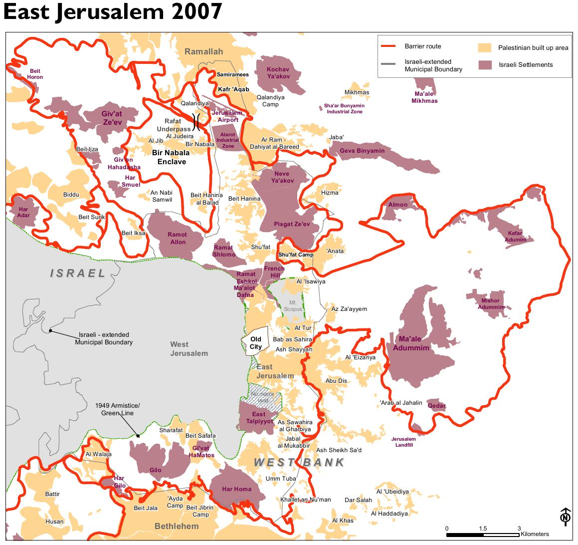 Jerusalem barrier, update June 2007. Planned route, including parts at the time not yet realized. From: The Humanitarian Impact of the West Bank Barrier on Palestinian Communities: East Jerusalem